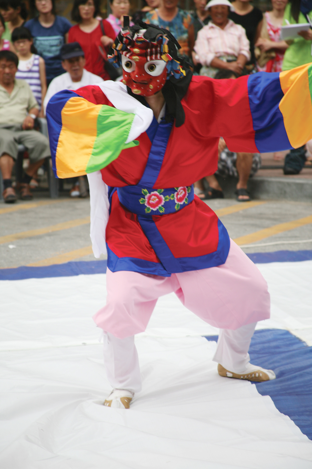 Korean mask dance-Talchum. 취발이 (Chwibari), "Old batchelor" mask. (Identification based on Tal and Talchum pdf, page 44)